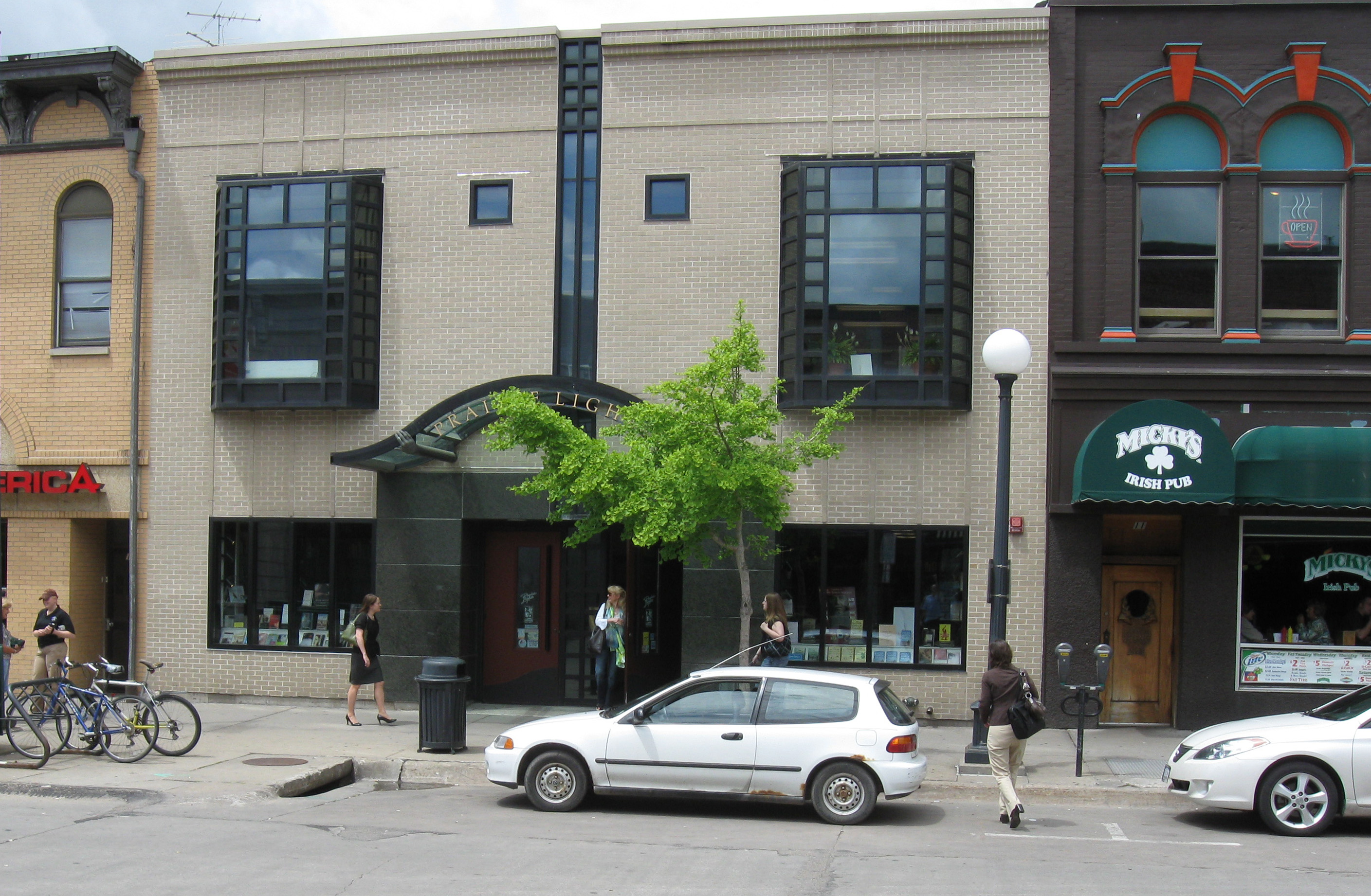 Prairie Lights Bookstore, Iowa City. Bill Whittaker (talk) 17:48, 8 June 2009 (UTC)